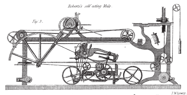 Roberts'_Self_Acting_Mule: Capture from Baines 1835, Illustrations from the History of the Cotton Manufacture in Great Britain .Pub H. Fisher, R. Fisher, and P. Jackson